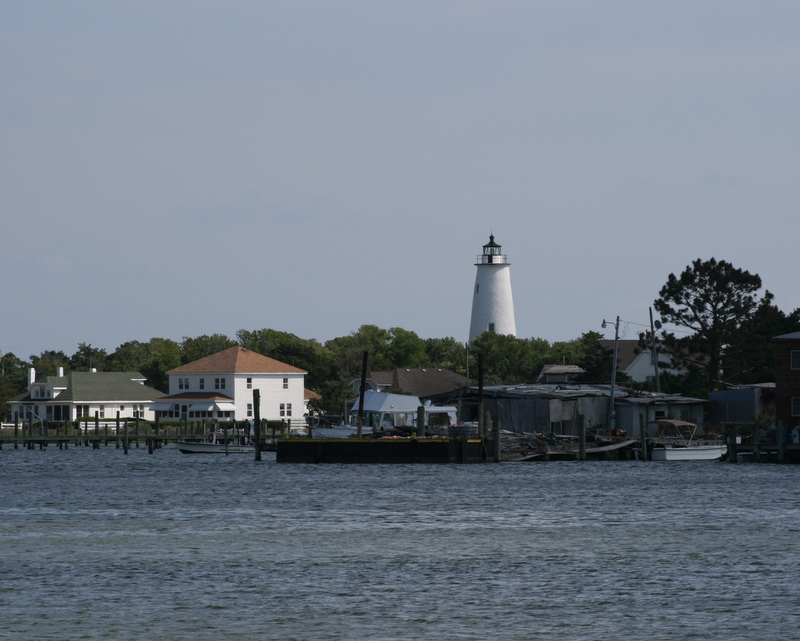 Ocracoke Island Lighthouse from across Silver Lake (Ocracoke Island, Outer Banks, North Carolina, United States)